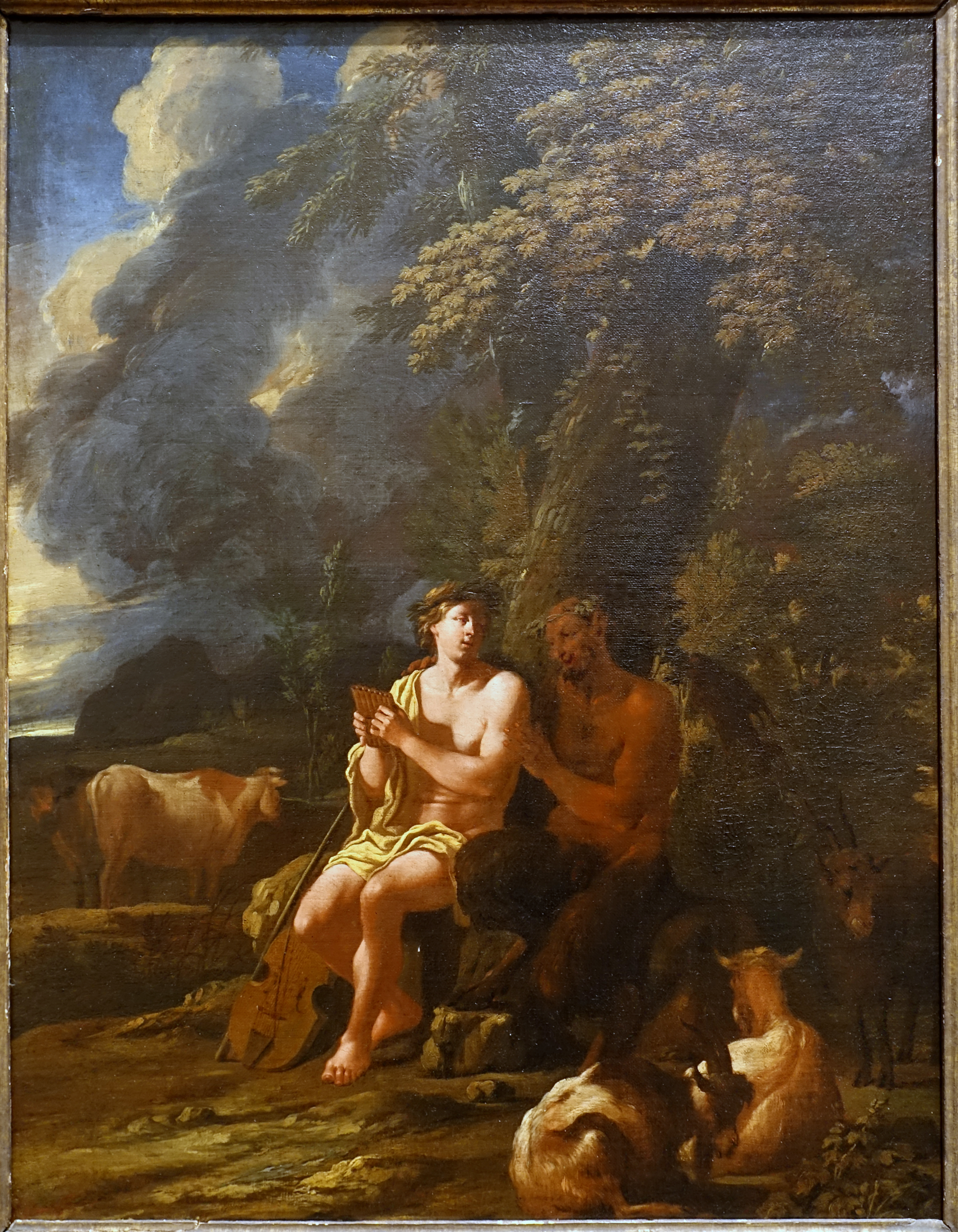 Exhibit in the Blanton Museum of Art - Austin, Texas, USA. This work is old enough so that it is in the public domain.